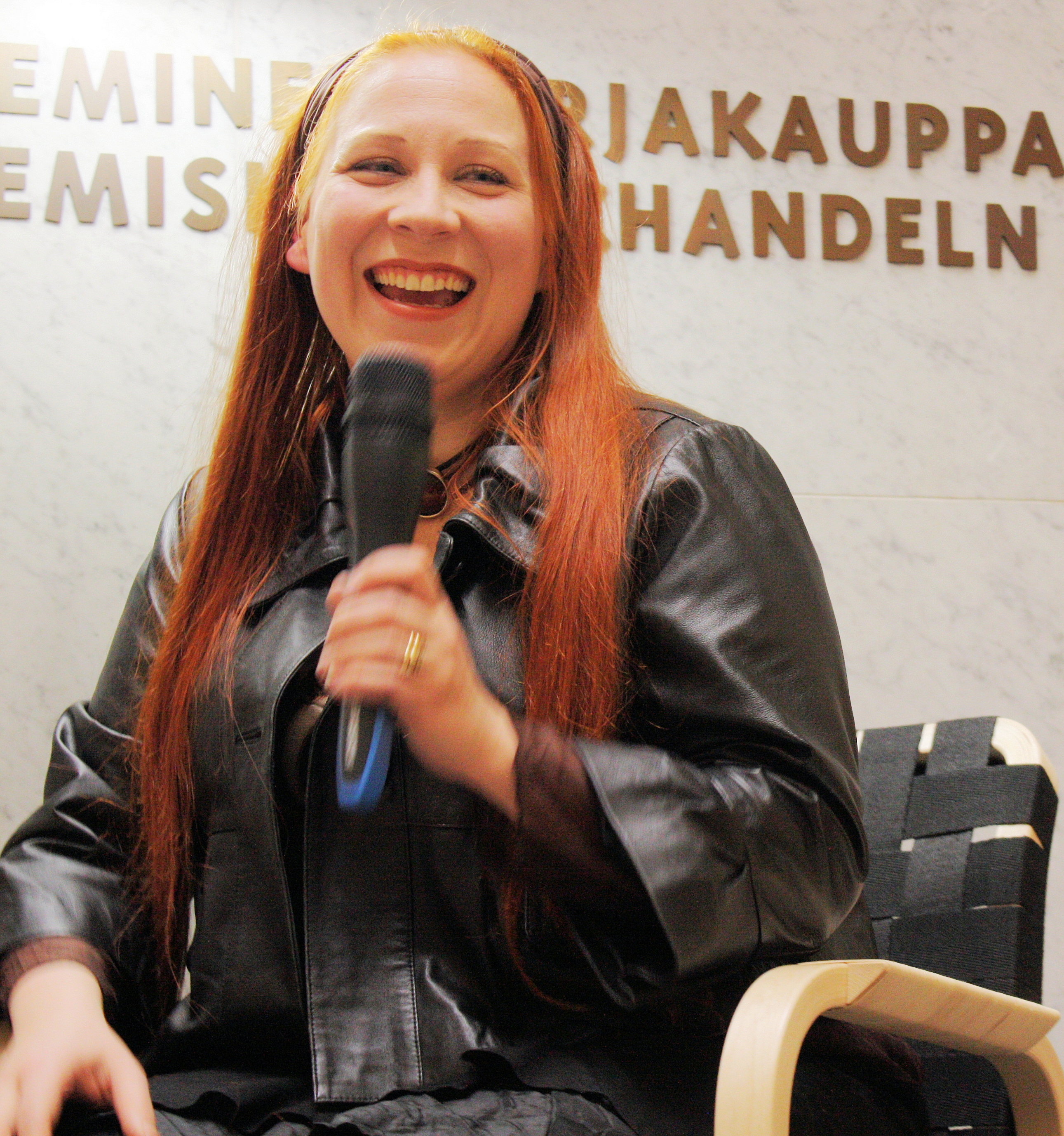 Finnish writer and drama teacher Siri Kolu in the bookstore Akateeminen kirjakauppa in Helsinki